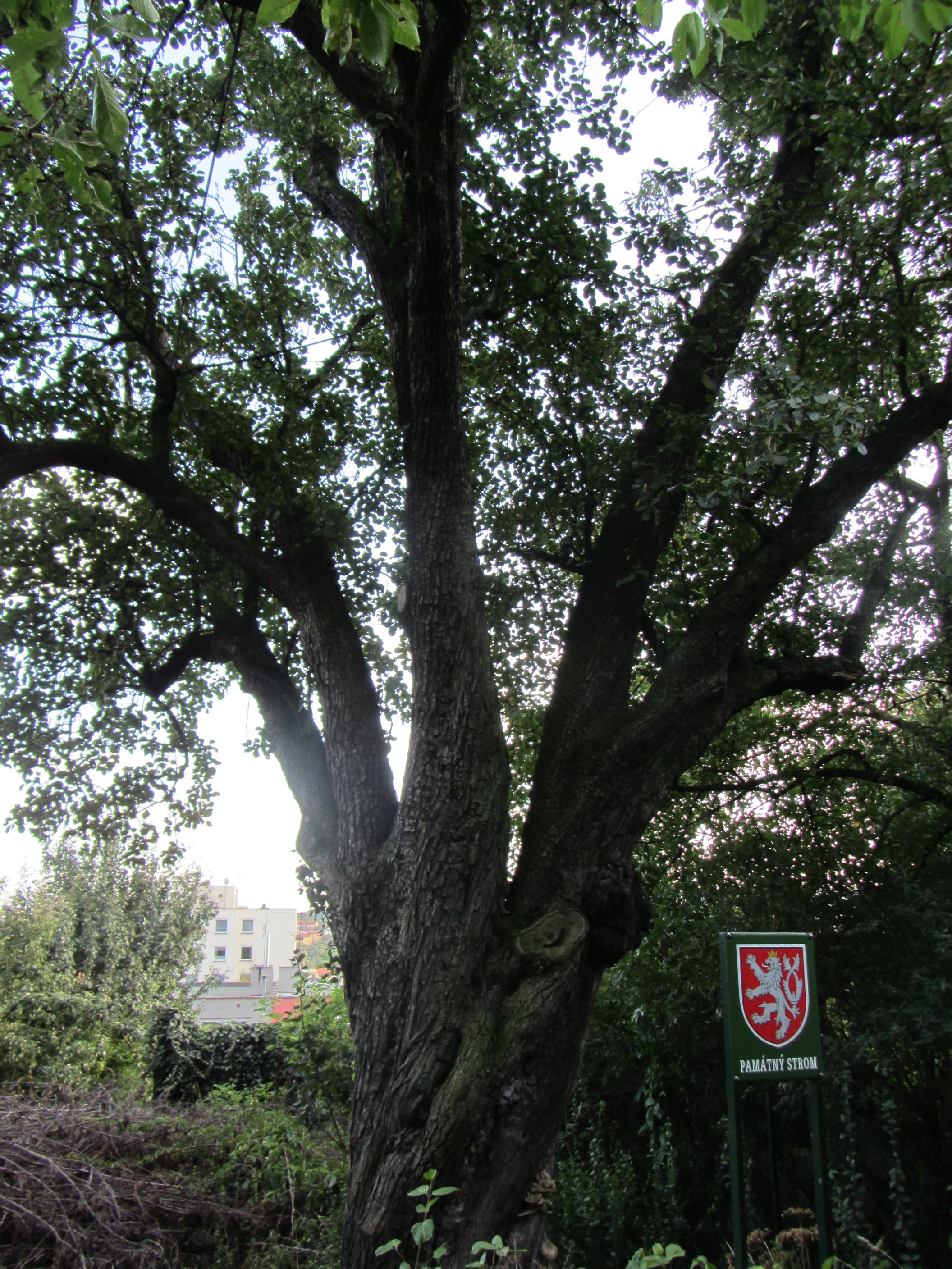 Pyrus communis, remarkable tree near Zdíkovská street, Prague